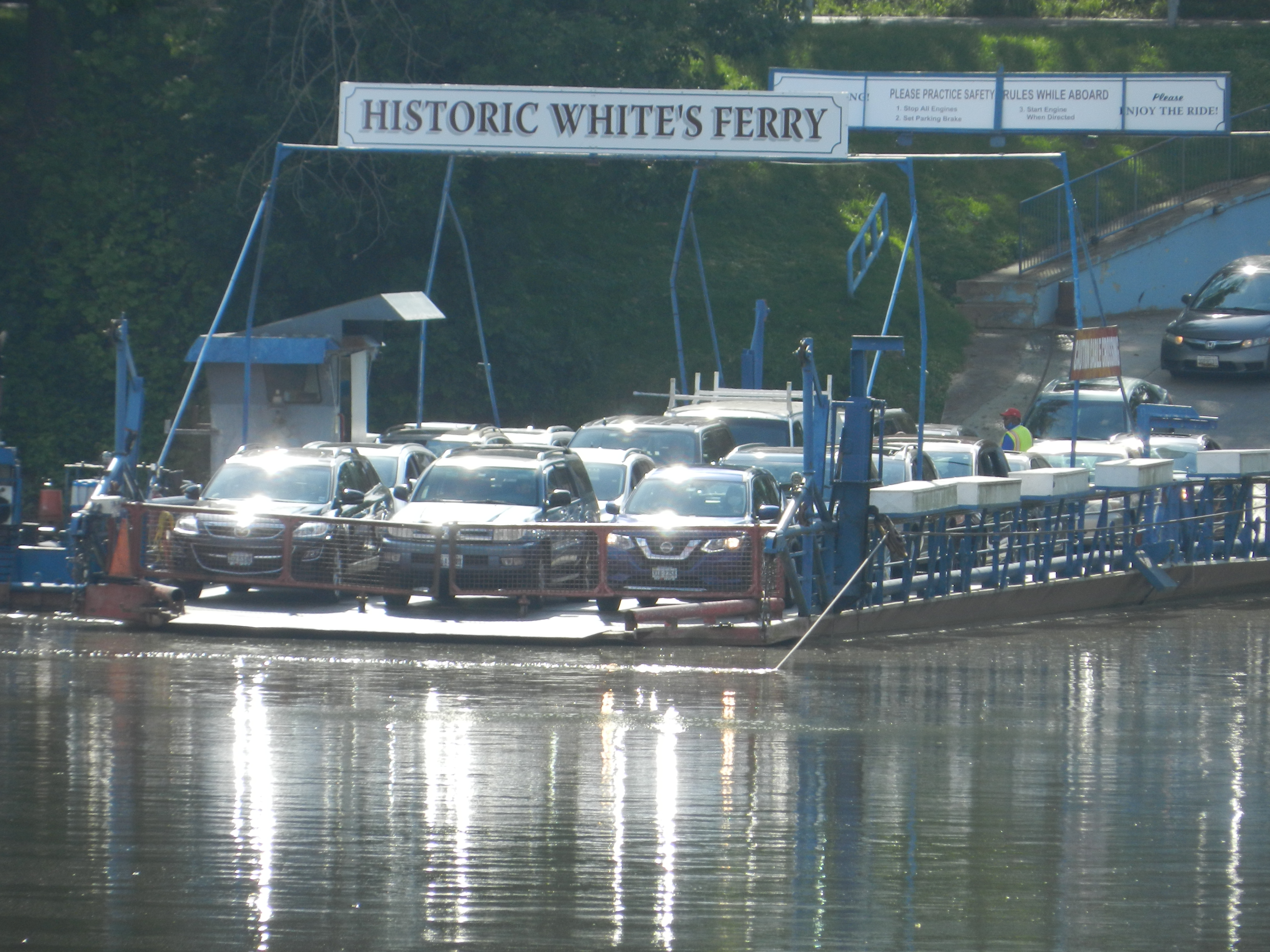 The White's Ferry ferryboat has been re-labeled "Historic White's Ferry"